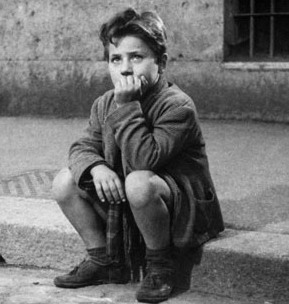 screenshot from the film Bicycle Thieves (1948)